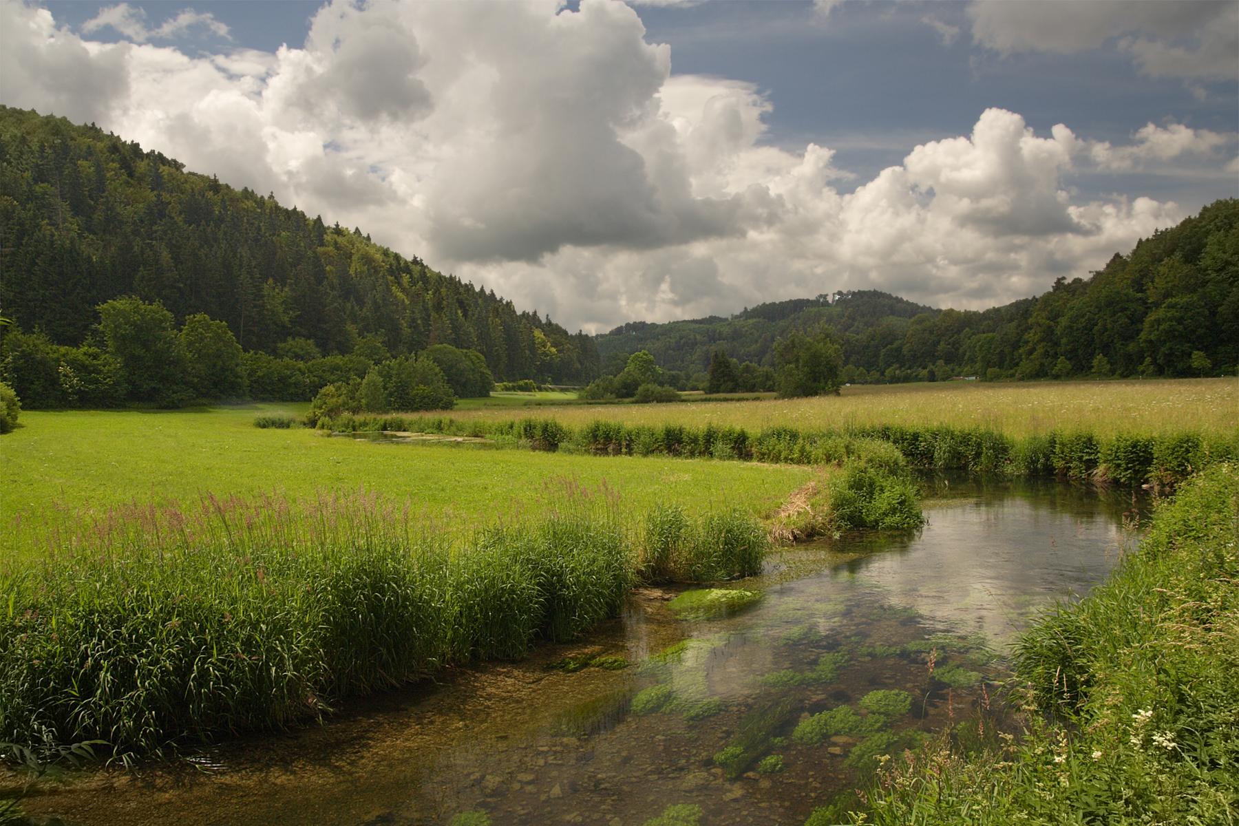 Meandering Lauchert, Swabian Alb. Considering the broadness of the valley the karst has obviously made the river small.